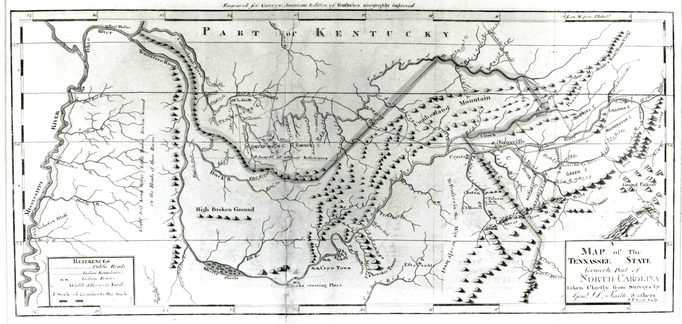 "Map of the Tennassee State," an early map of the U.S. state of Tennessee